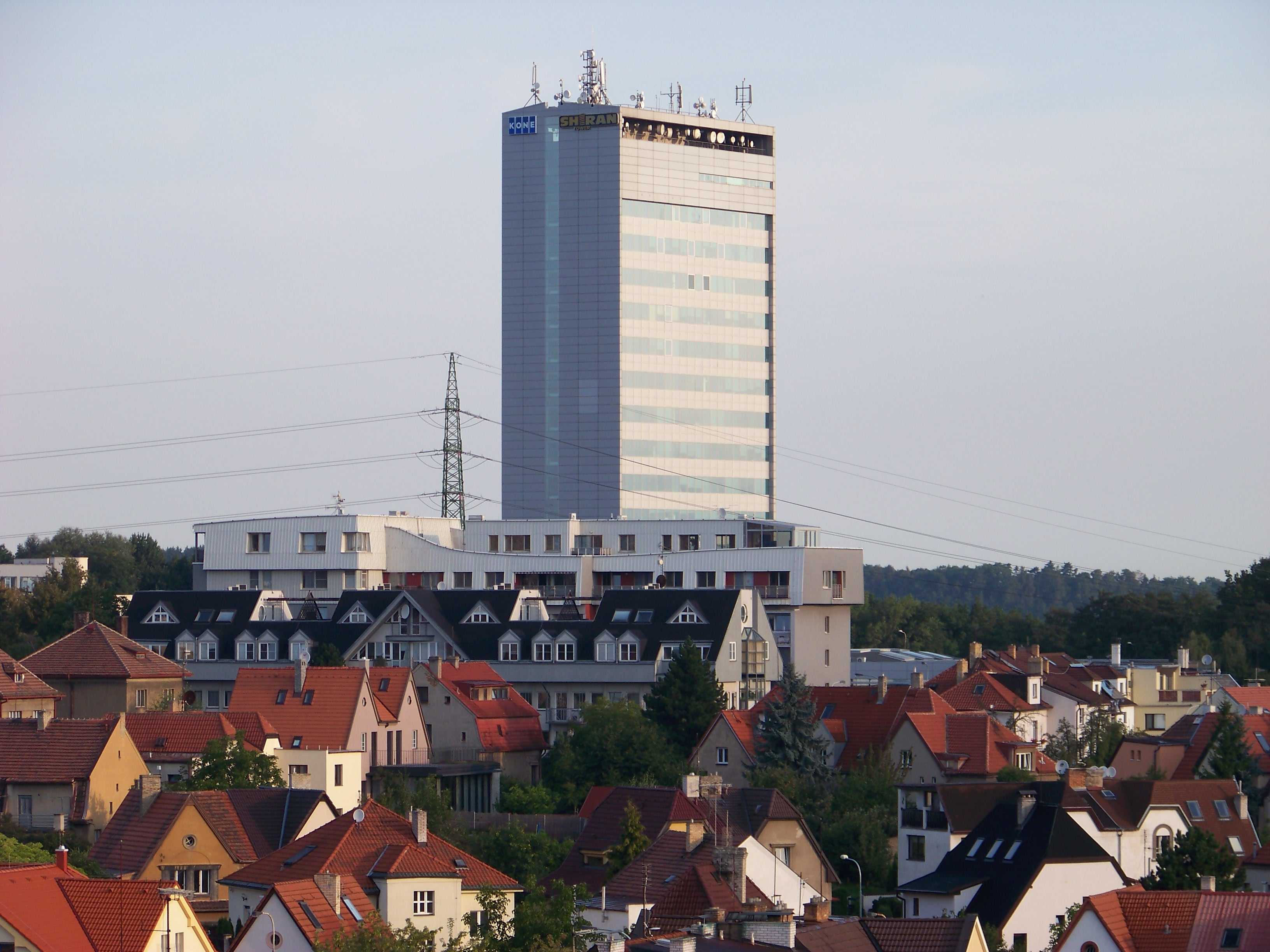 Prague-Vokovice, the Czech Republic. - OpenStreetMap(Info) #coordinates: : invalid latitude